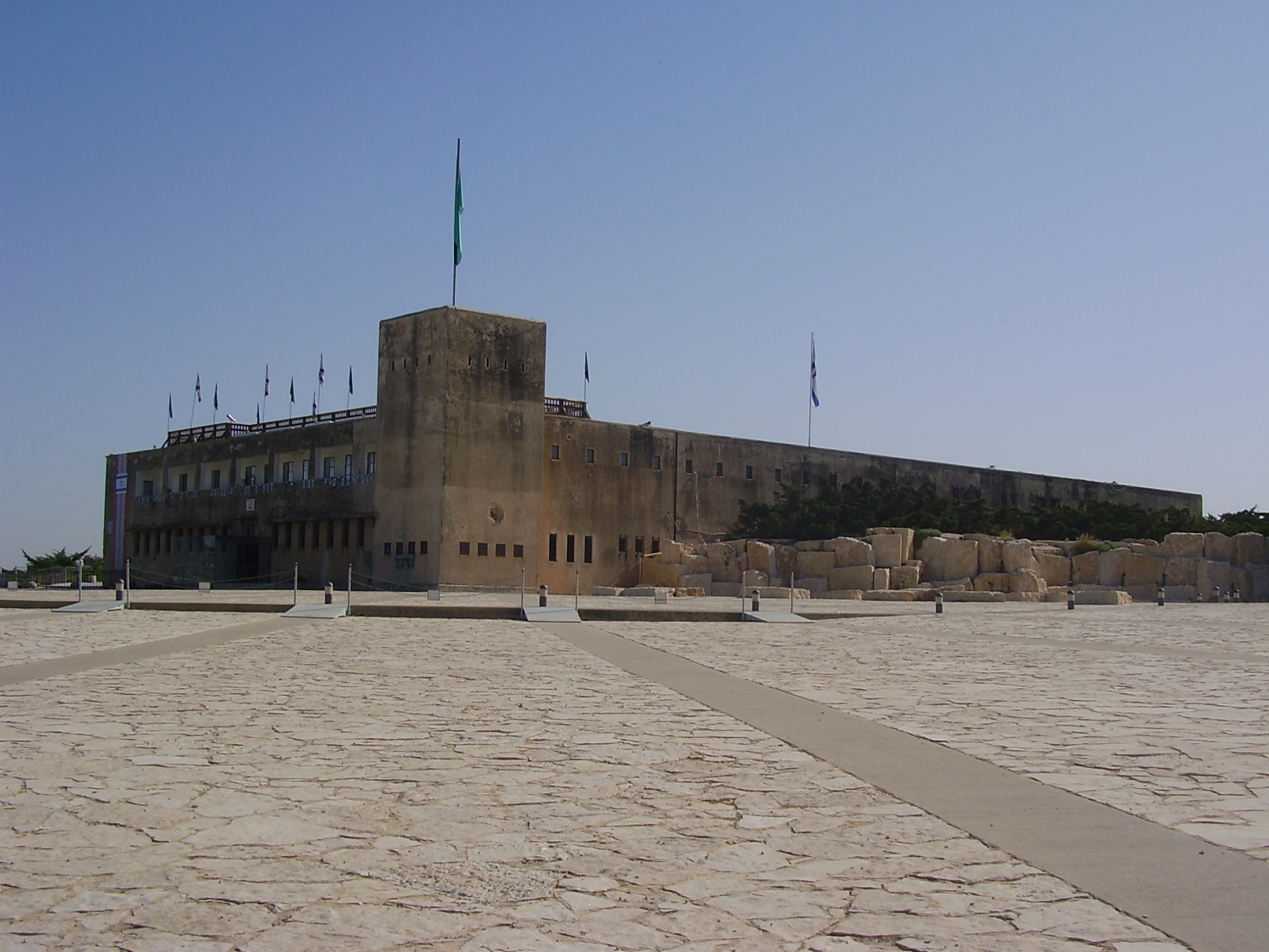 Armored Corps Museum in Latrun